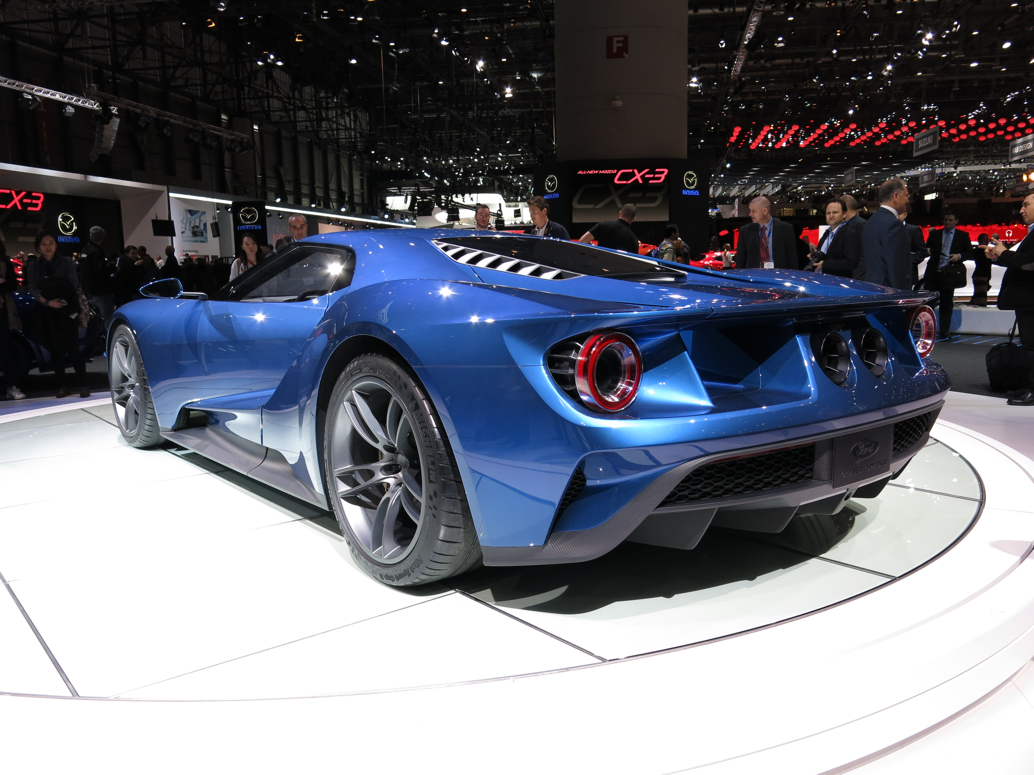 Geneva Motor Show 2015 (photo taken on the first press day)